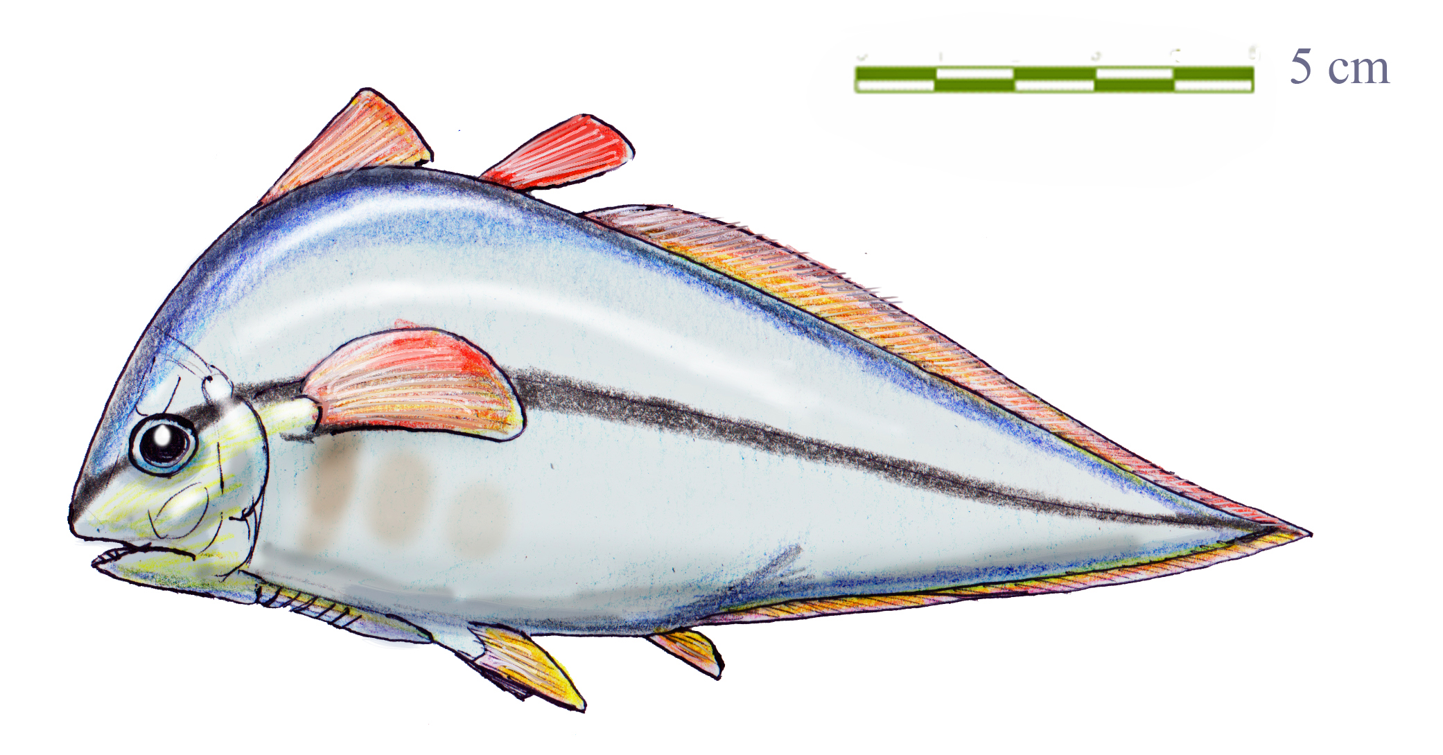 Allenypterus montanus, coelacanthimorph fish from early Carboniferous of North America